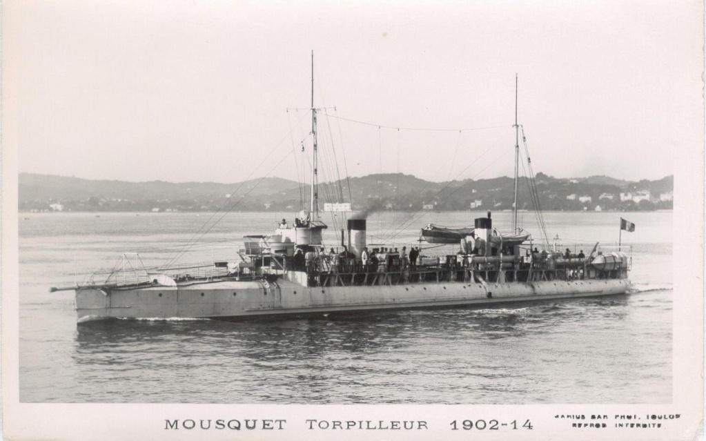 Arquebuse class torpedo boat